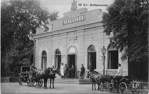 The historical name of the station until 1935 - Bobrinskaya